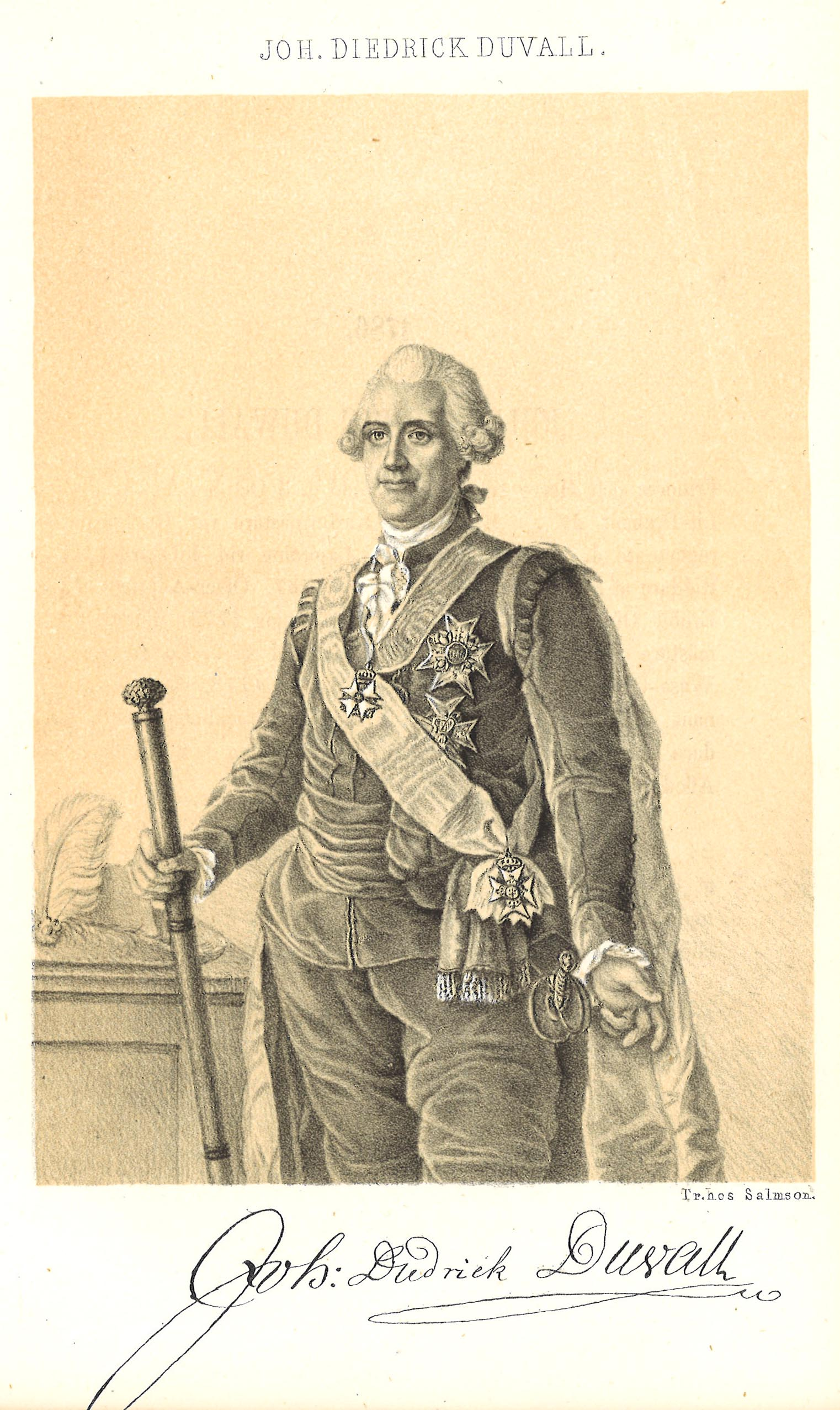 Johan Didrik Duwall (1723-1801), Swedish baron, officer and "lantmarskalk" (chairman of the estate of nobility).